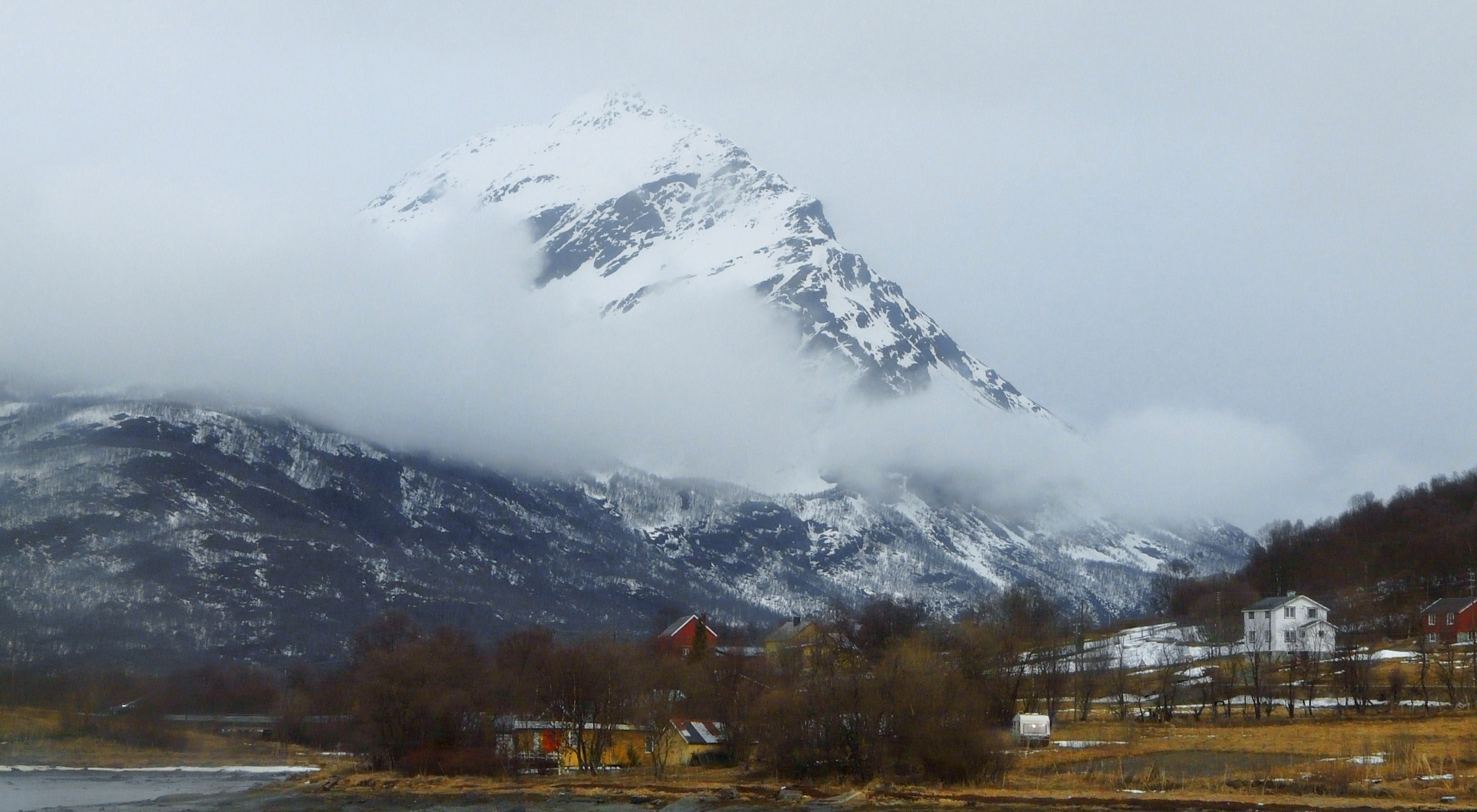 Laksvatn village in front and the 1,042 metres high summit of Sieidi in the background as seen towards northeast from the E8 road in 2009 May.